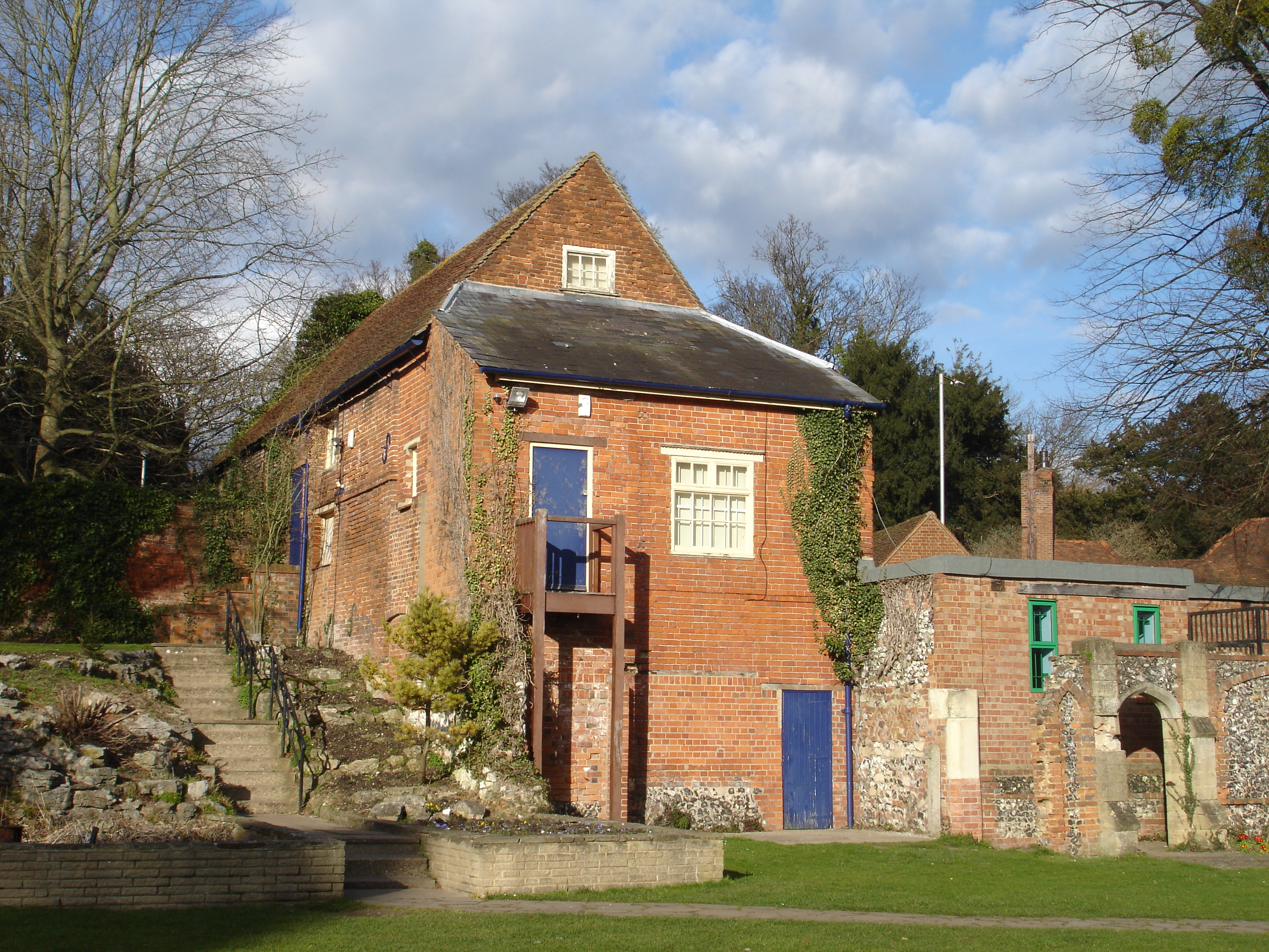 The former stable block in Caversham Court Gardens, Reading, England